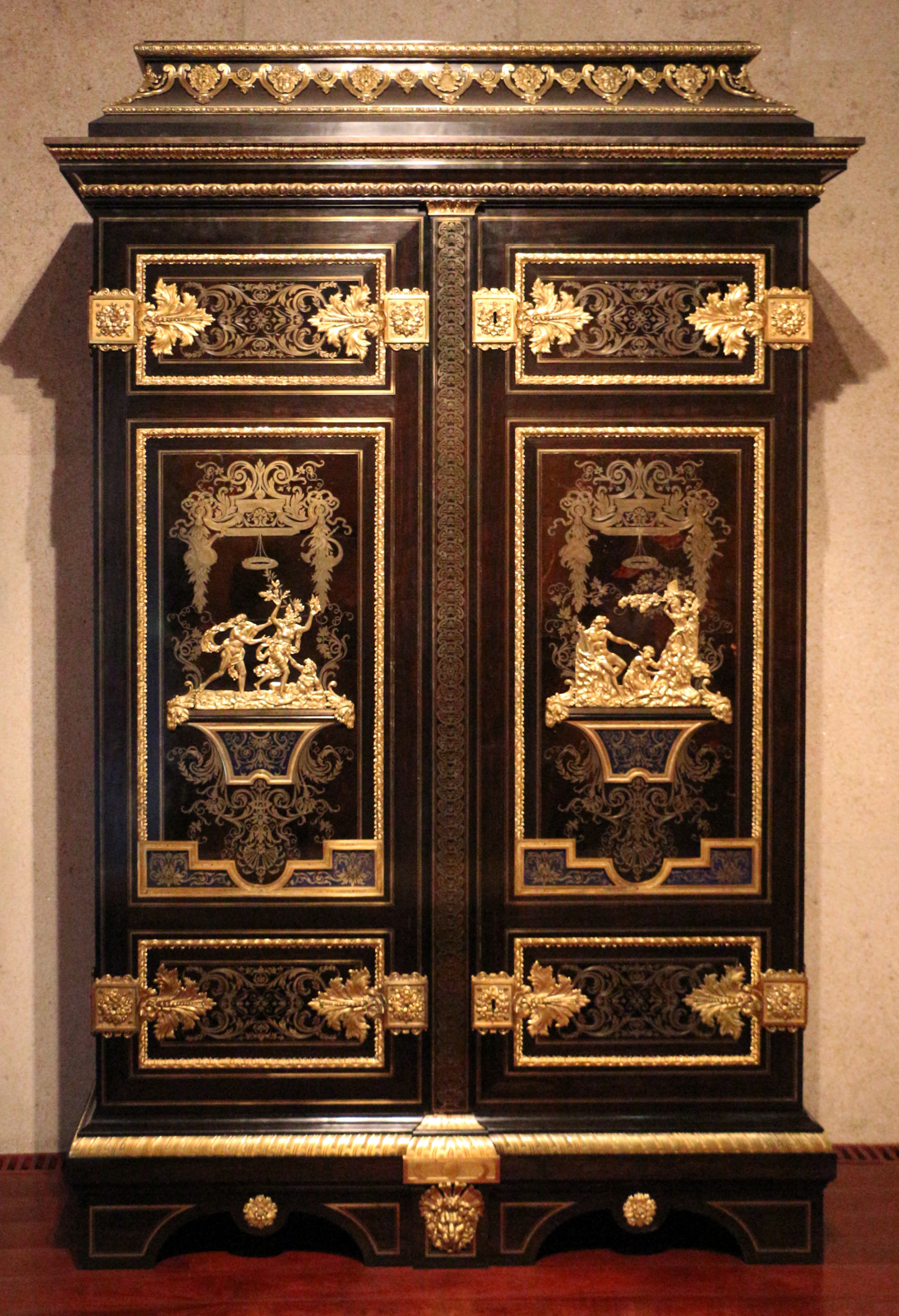 Furniture in the Calouste Gulbenkian Museum